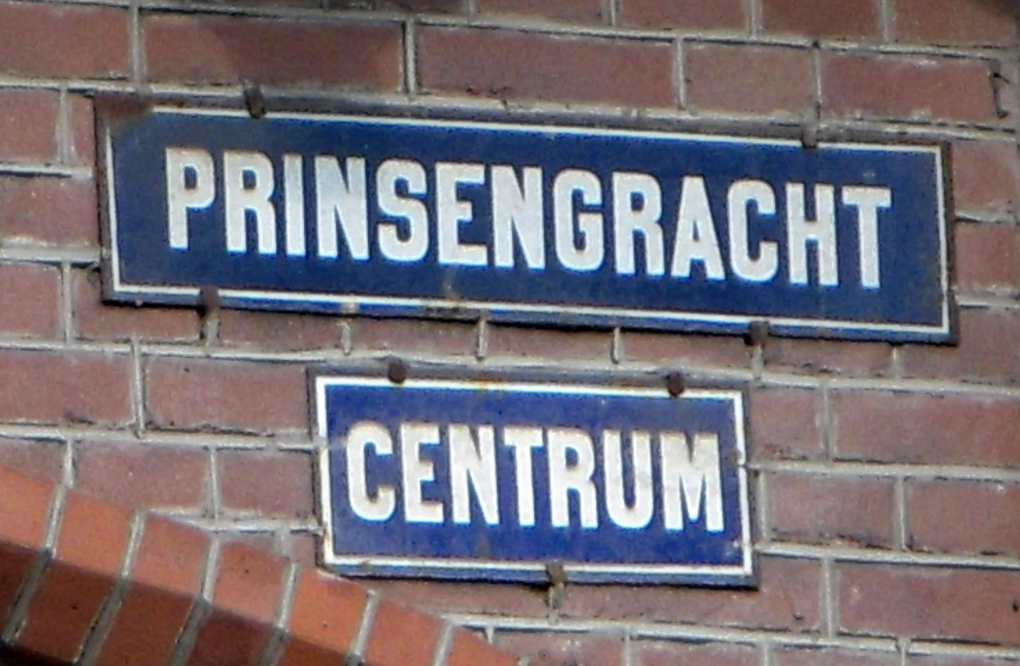 Prinsengracht street sign in Amsterdam. April 2009.